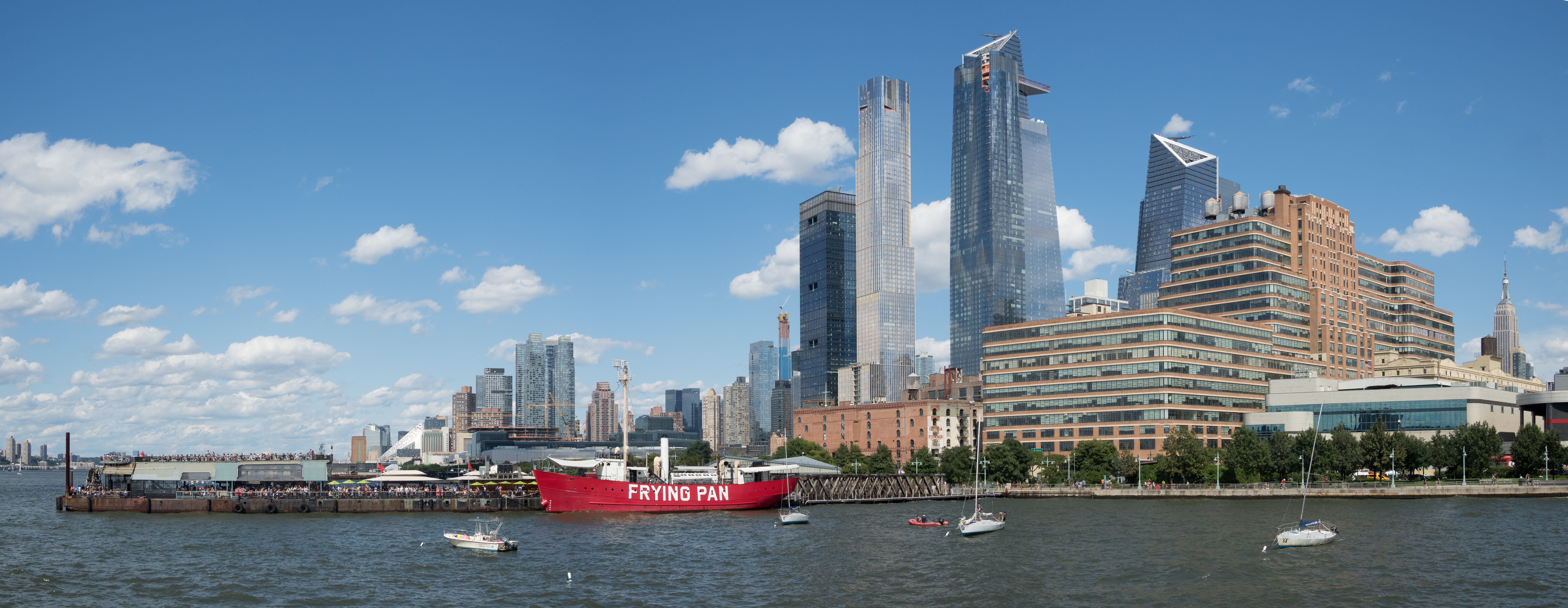 Pier 66 and Hudson Yards, New York City, New York, US